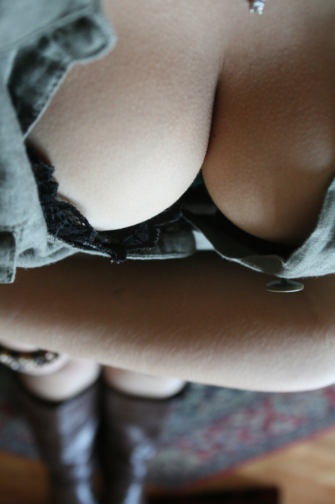 Cleavage.